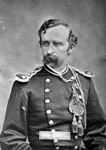 Lt. Col. George Armstrong Custer (1839-1876)